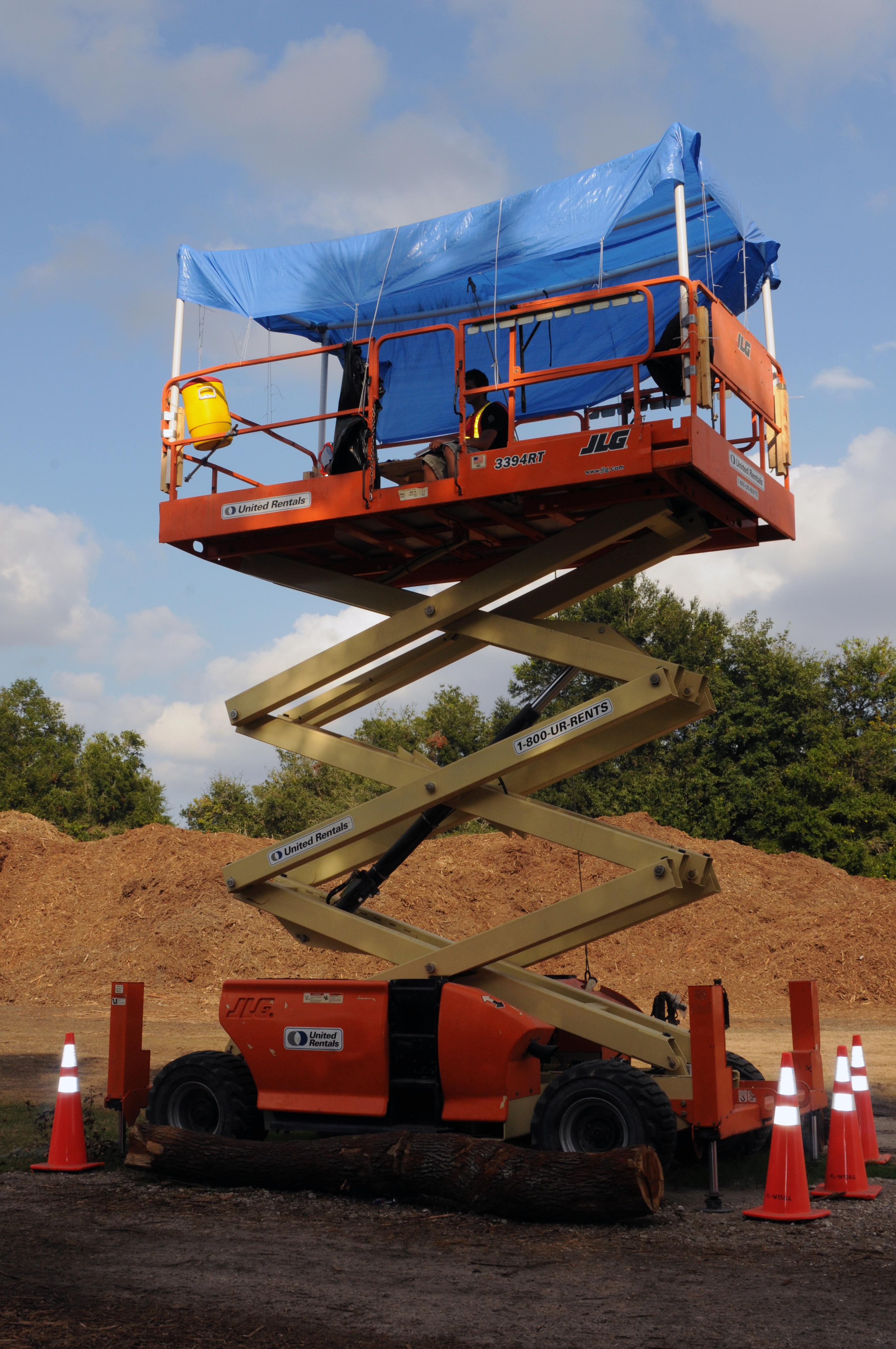 Jacksonville, FL, September 18, 2008 -- This power lift is being used as a portable tower to inspect percentage of capacity for each arriving and departing contractor truck. This allows an inspection of debris level and cost estimation for Tropical Storm Fay debris. FEMA Public Assistance(PA) funds will probably be paying 75% of this cost. George Armstrong/FEMA